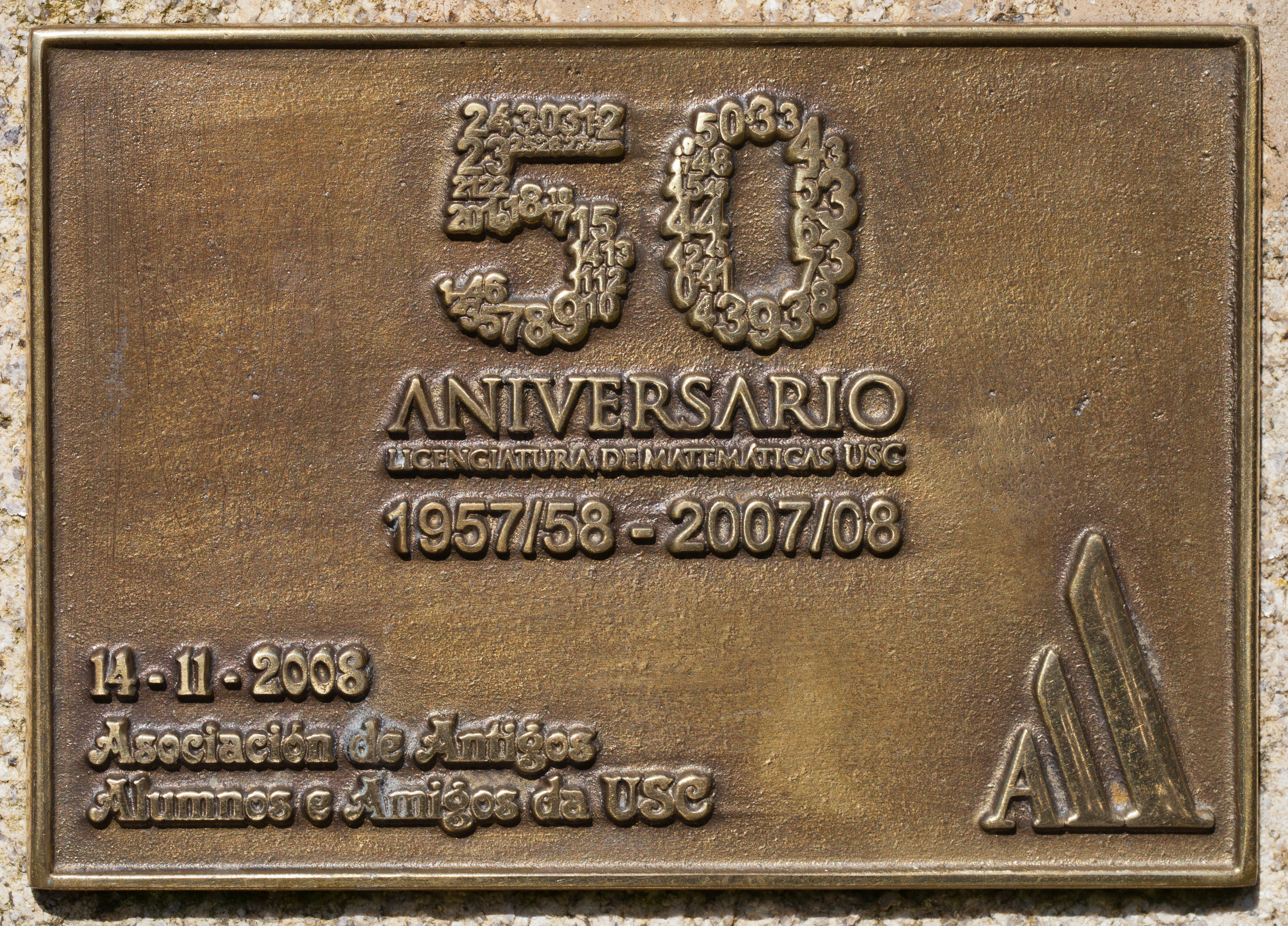 50th anniversary of Mathematics. Universitary campus of Santiago de Compostela, Galicia (Spain)